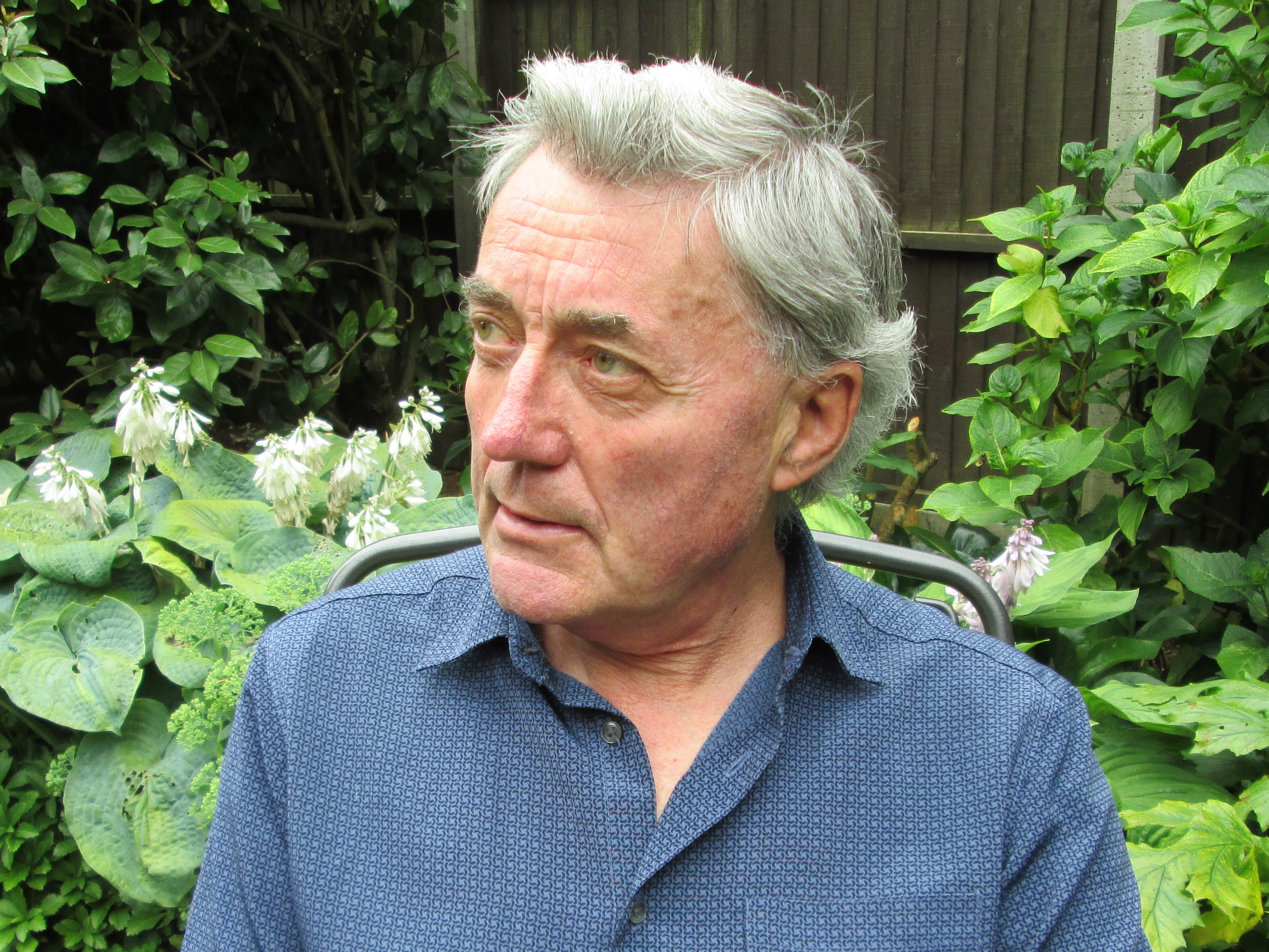 John Simon (composer)